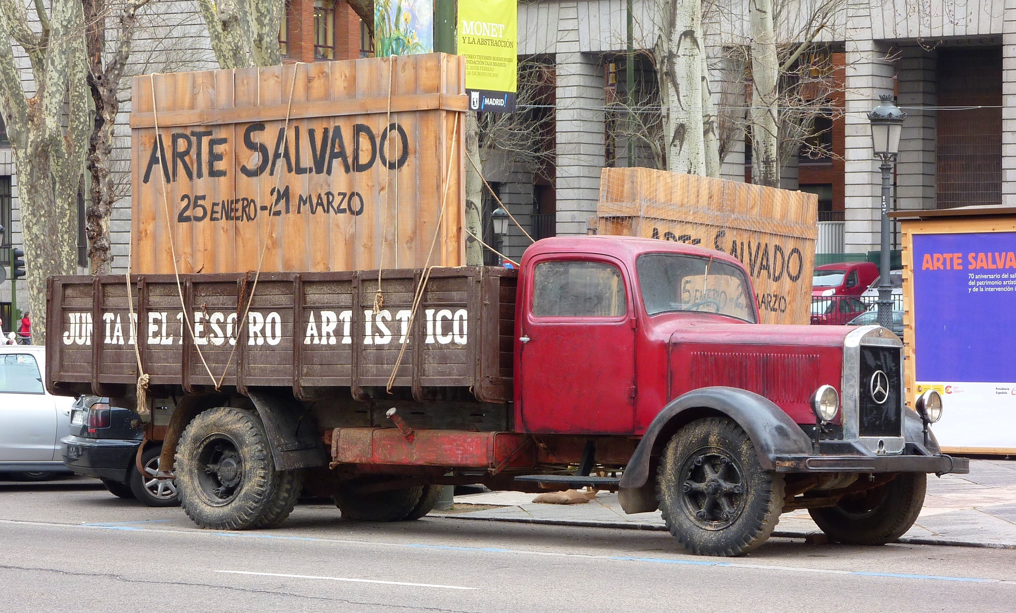 Mercedes-Benz truck representing a vehicle of the Junta del Tesoro Artístico (Artistic Treasure Board).